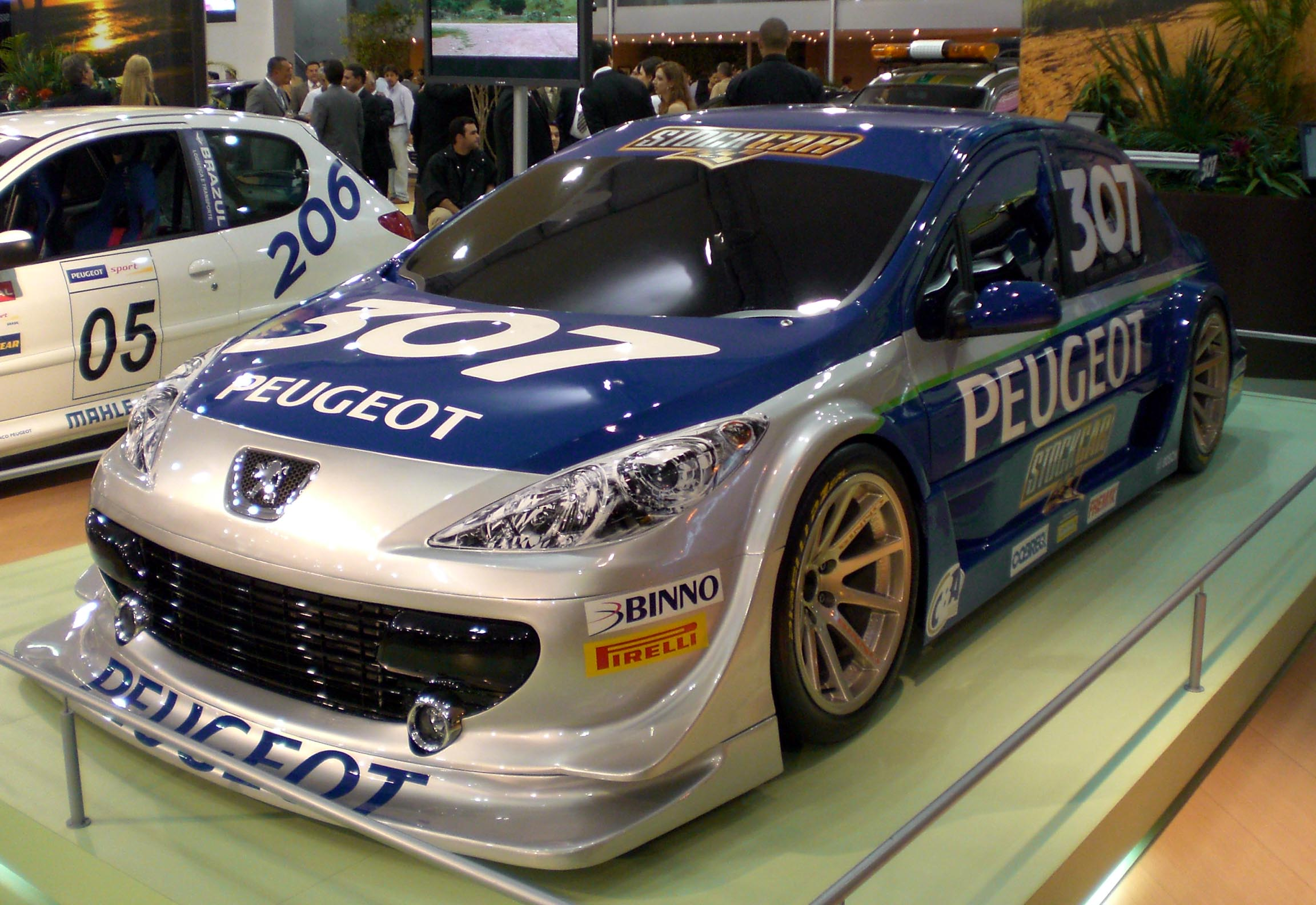 Stock Car Brasil: Peugeot 307 concept car at the Salão Internacional do Automóvel (International Automobile Trade Show).